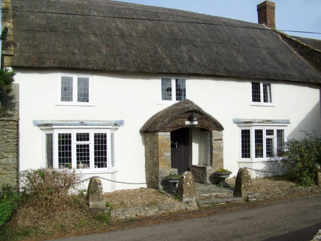 Church Farm, Beer Hackett Early 18th century Rubble Stone house with plastered front opposite the church.